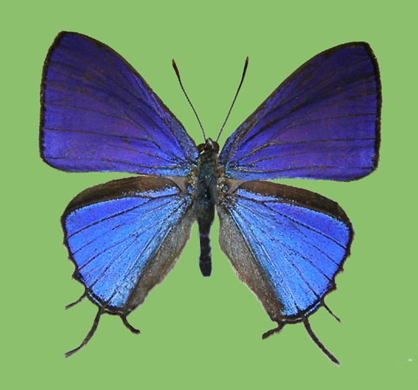 Catapaecilma nakamotoi H. Hayashi, male upperside